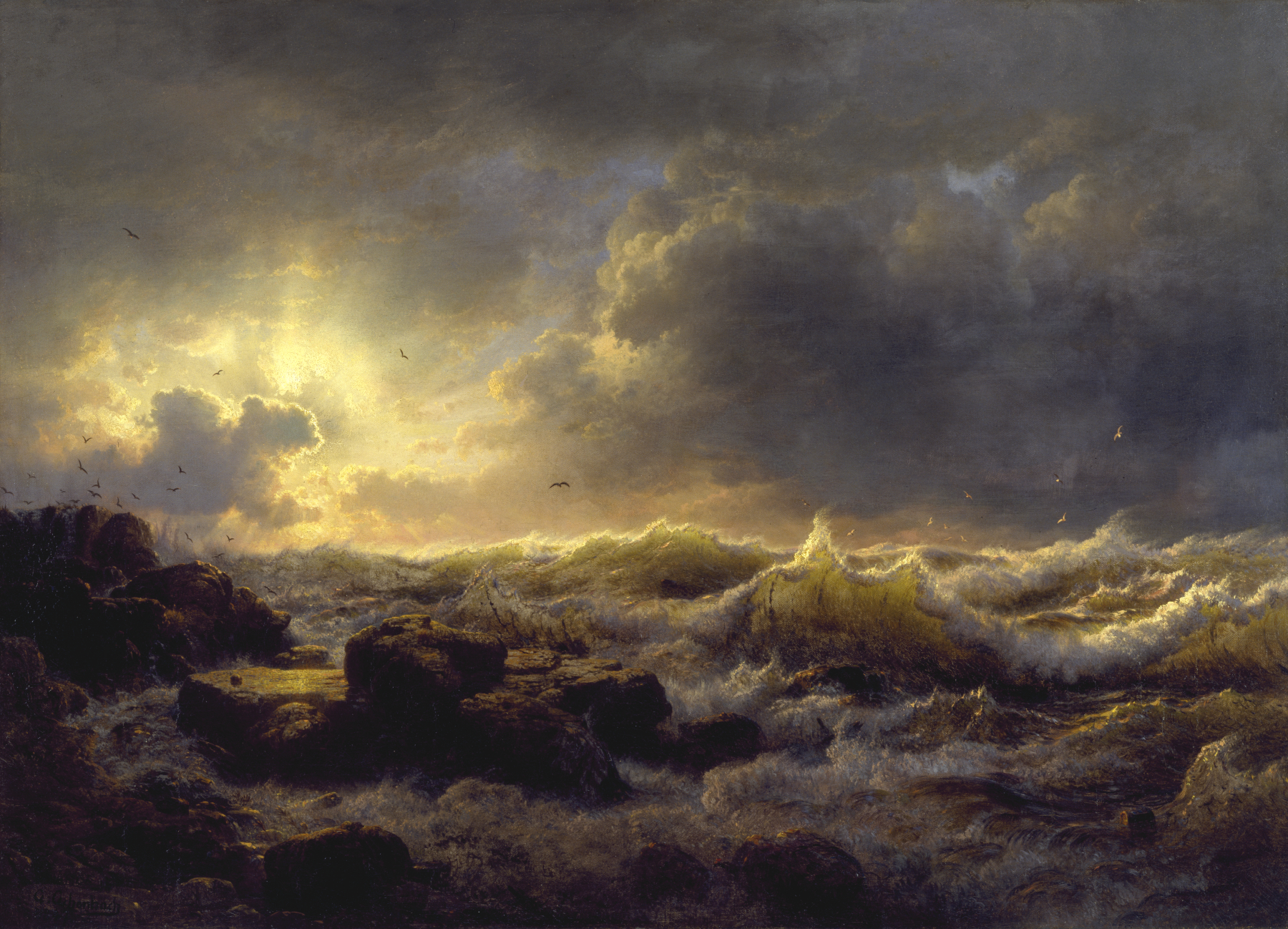 Beginning in the 1820s, the academy in Düsseldorf, a town on the Rhine River, began to attract artists from other German cities and from abroad. Achenbach, one of Düsseldorf's most influential painters in the mid-19th century, specialized in the "sublime" mode of landscape painting, in which man is dwarfed by nature's might and fury. The tattered American flag on the rocks in the foreground implies that there is a shipwreck just out of view.